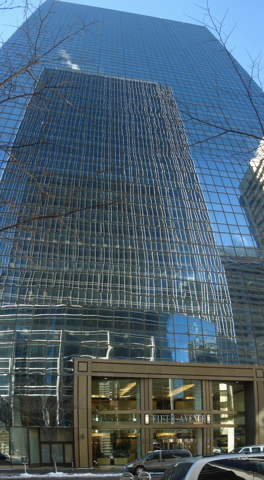 Fifth Avenue Place, Calgary, Alberta, Canada